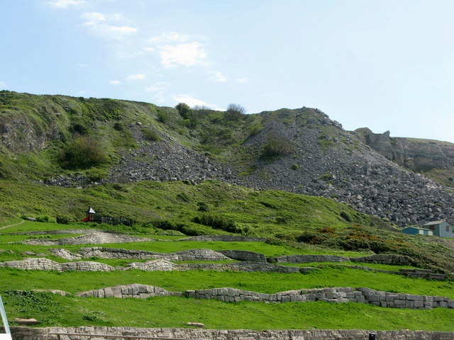 The Waves sculpture feature above Chesil Cove